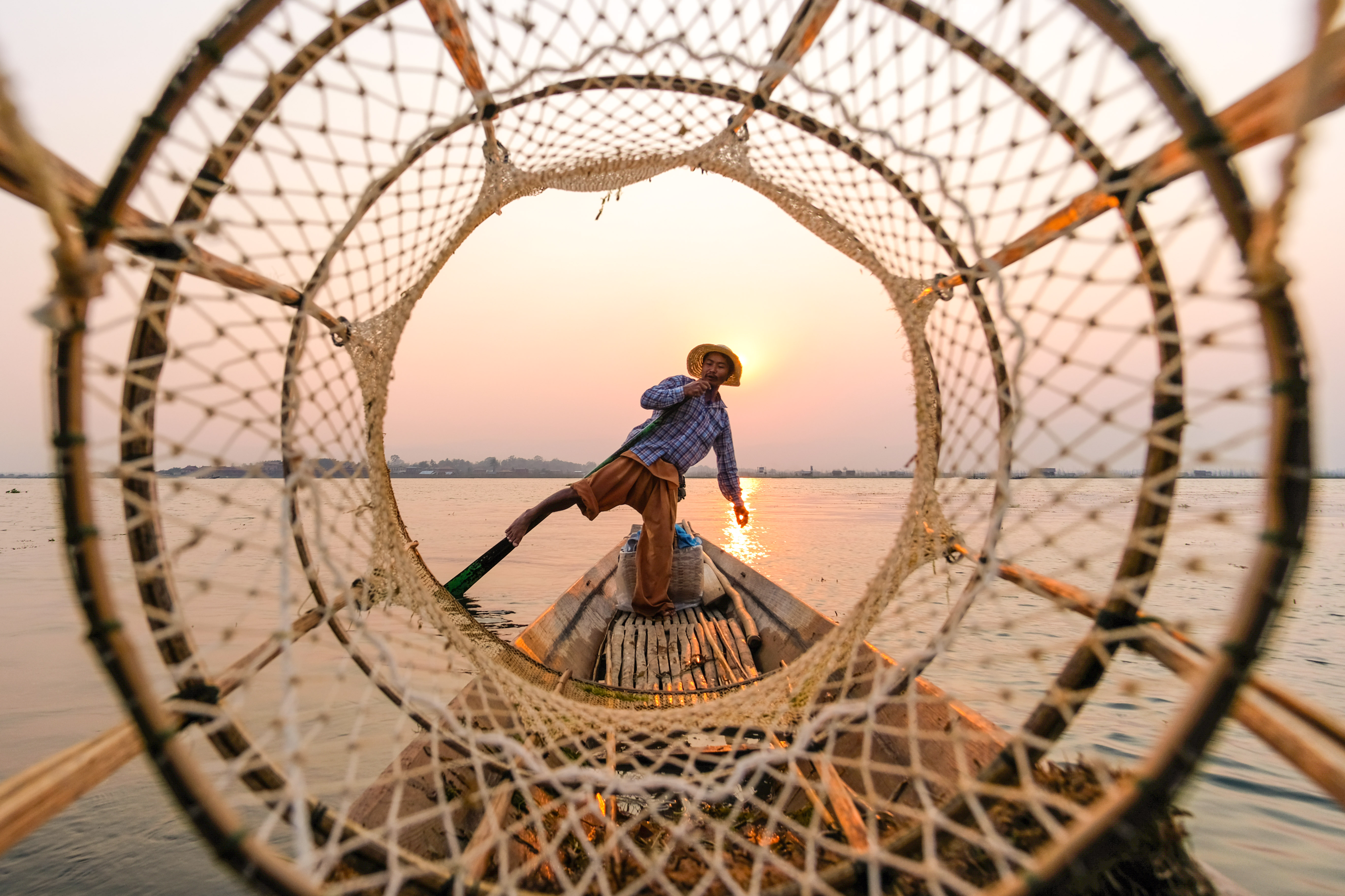 Leg rowing fisherman, seen through his cone basket, on Inle Lake.